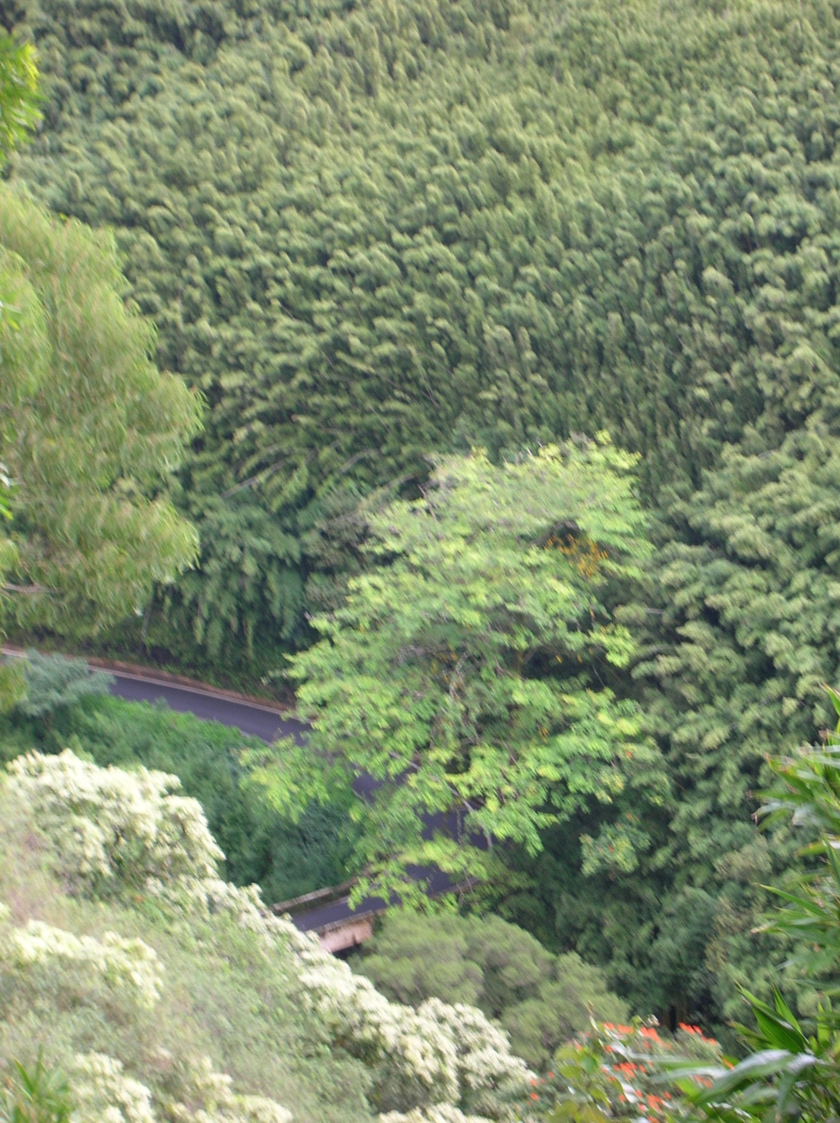 Terminalia myriocarpa (habit). Location: Maui, Waikamoi trail